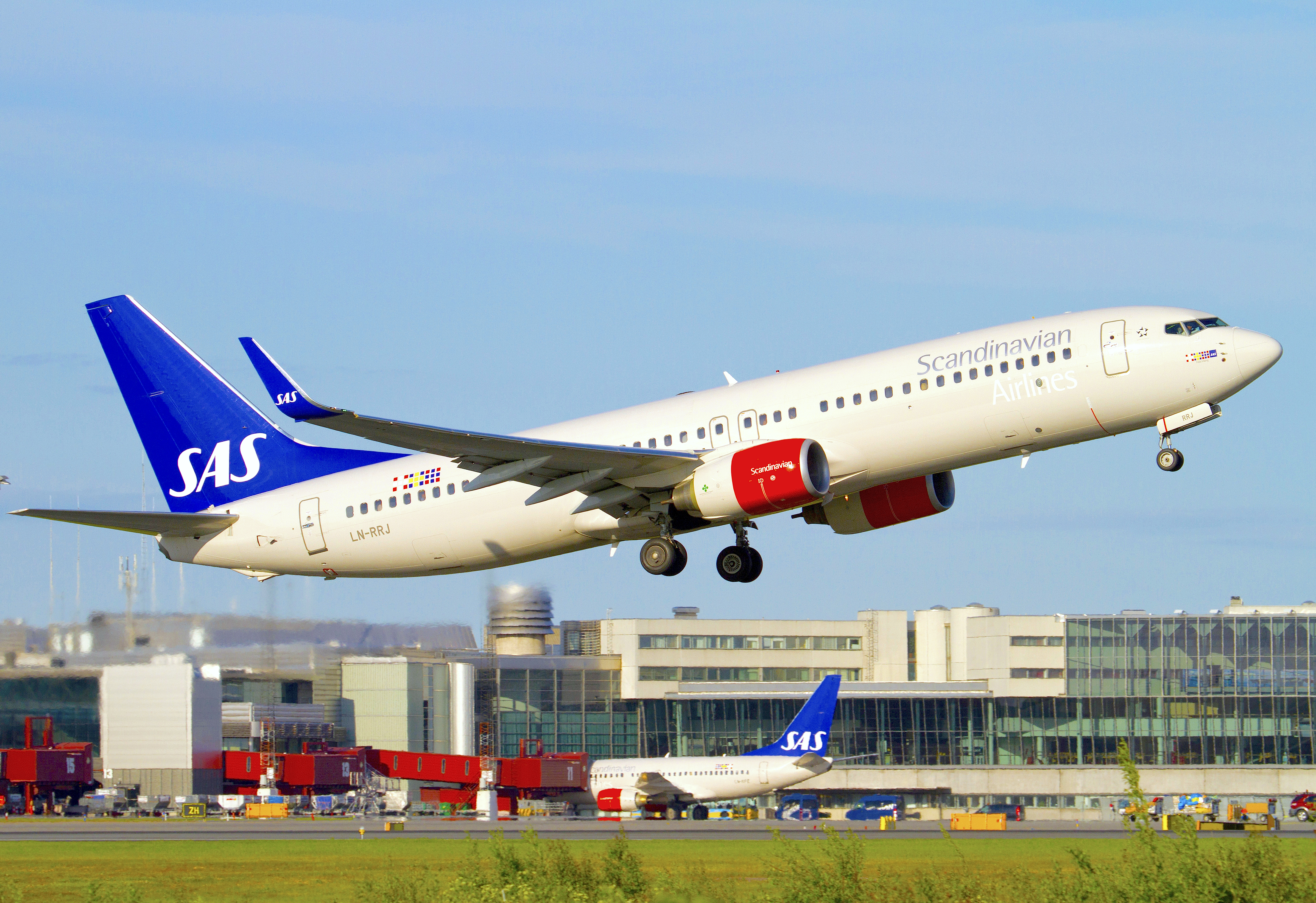 SAS Scandinavian Airlines Boeing 737-883 is taking off from its base at Stockholm - Arlanda Airport, Sweden. Terminals are in background